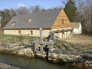 Reconstruction of George Washington's 1797 distillery near Mount Vernon, Virginia.